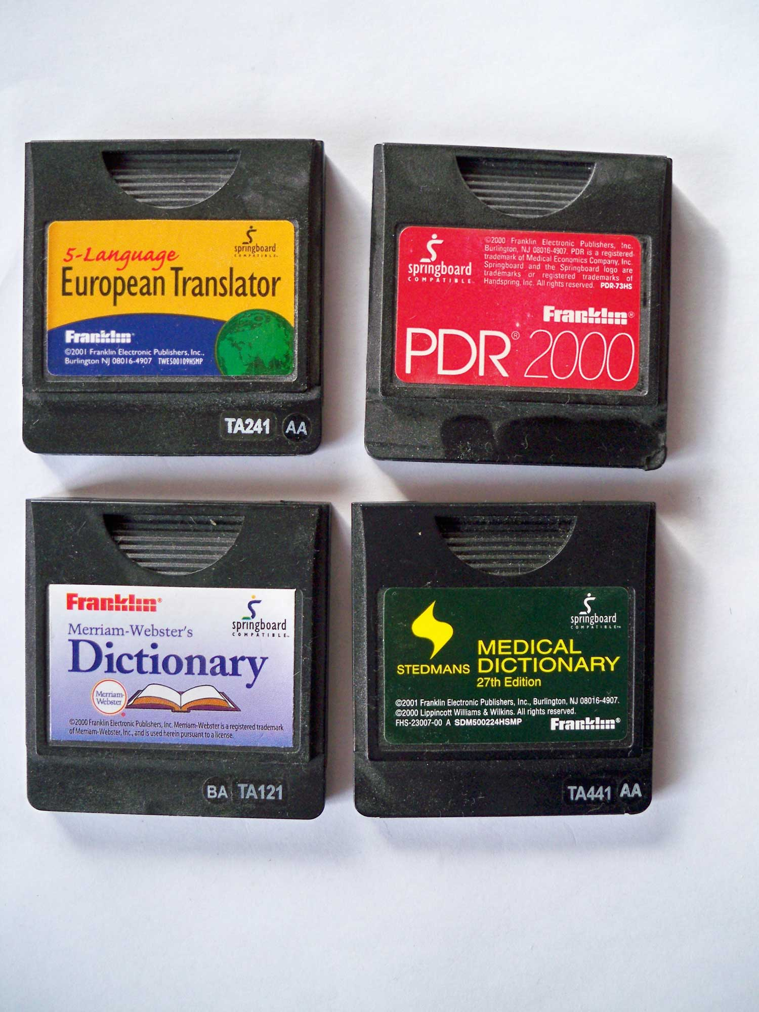 Springboard Expansion modules for PDA Handspring Visor: (Medical) Dictionaries, 5 Language Translator